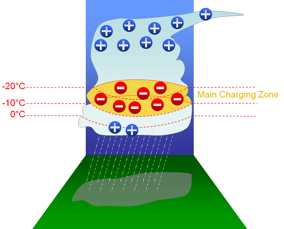 Figure 8.1 - Schematic showing the distribution of electric charges in a atmospheric thunderstorm.